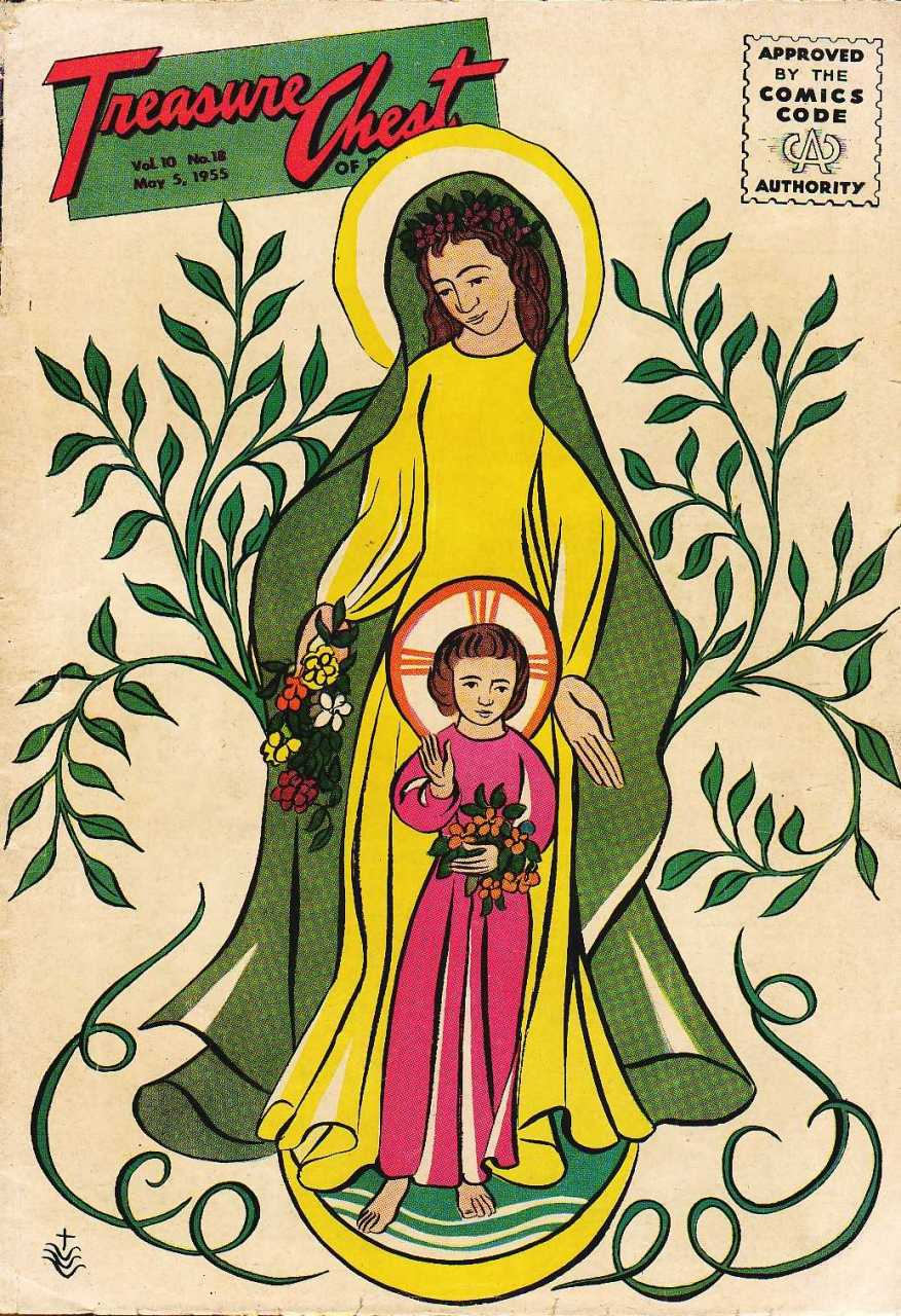 Cover to issue #184 of the comic book Treasure Chest